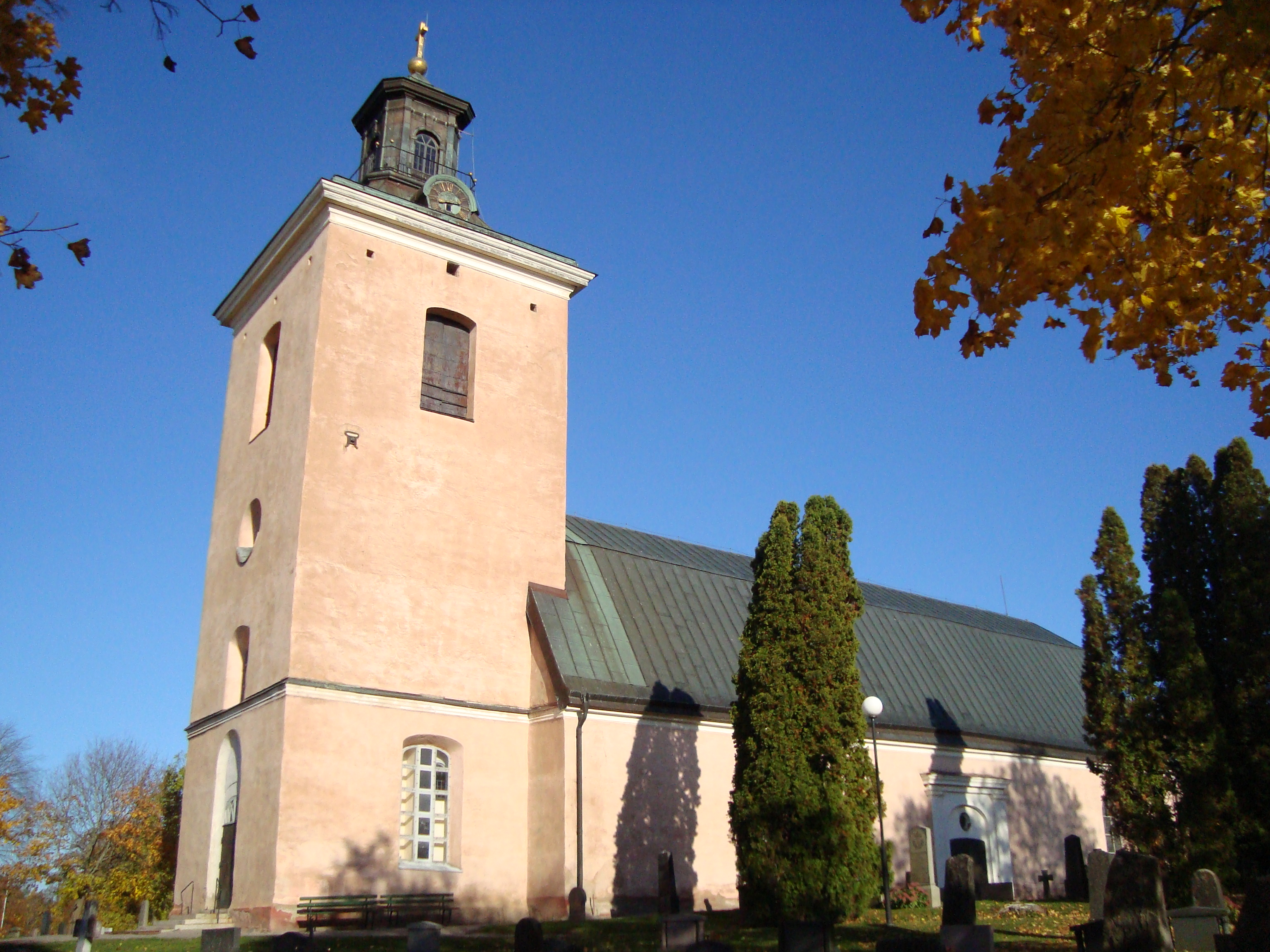 Church of Kila, Sala municipality, Sweden